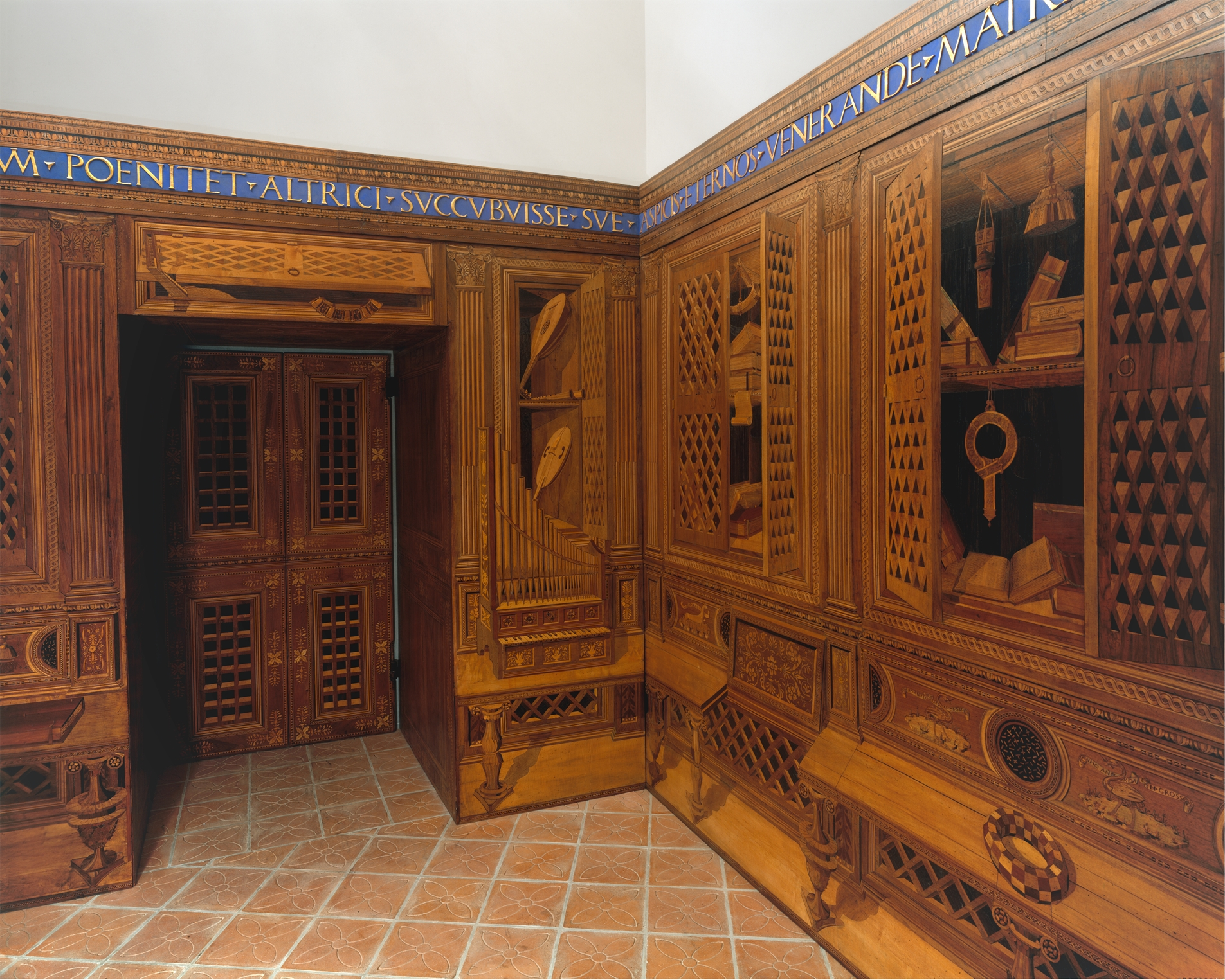 Italian, Gubbio; Period room; Woodwork